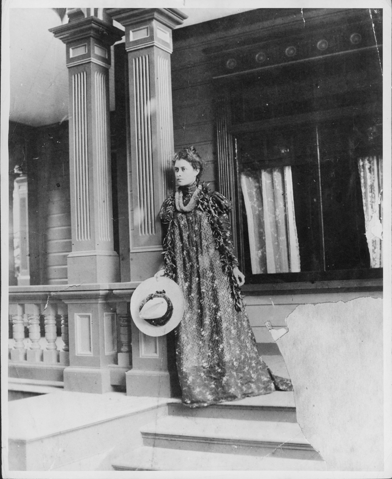 Princess Kaiulani standing on top of steps on the porch of her house at ʻĀinahau; wearing the holoku and a lei. Photograph by Frank Davey.